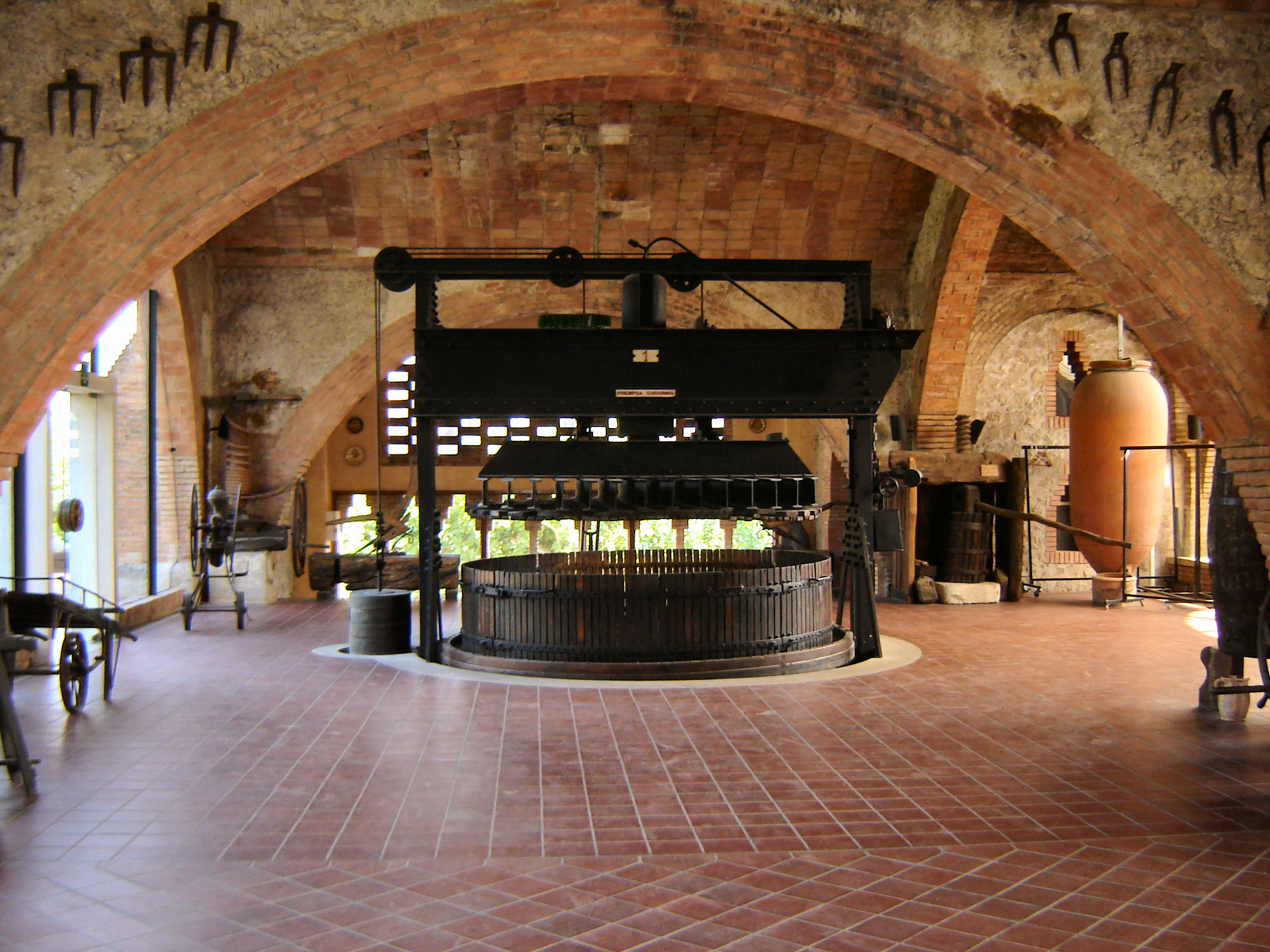 Museum of the Codorníu caves on the domains of Codorníu, with wine press.Sant Sadurní d'Anoia, comarca Alt Penedès, province of Barcelona, Catalonia, Spain.